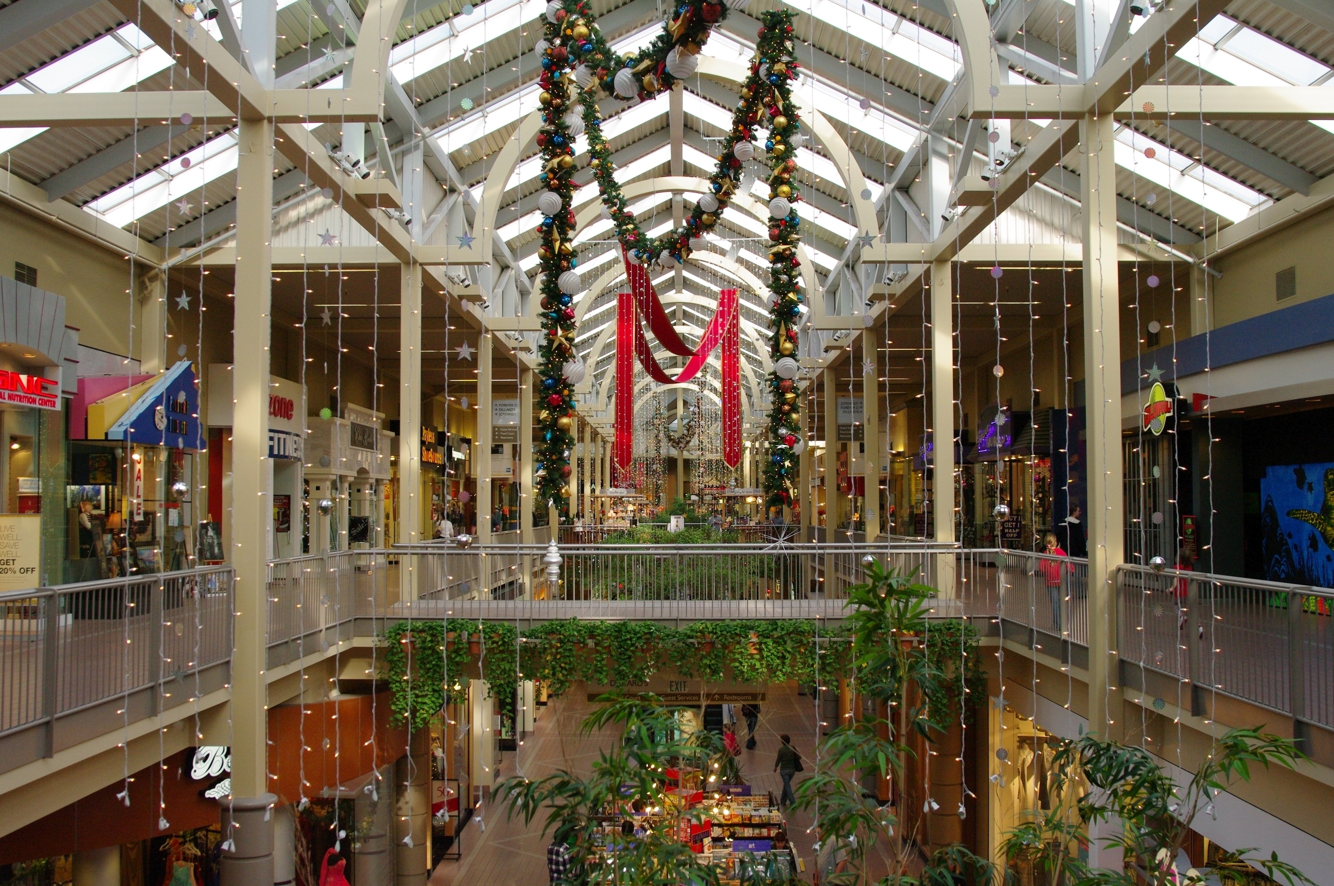 South Towne Center Christmas Decorations